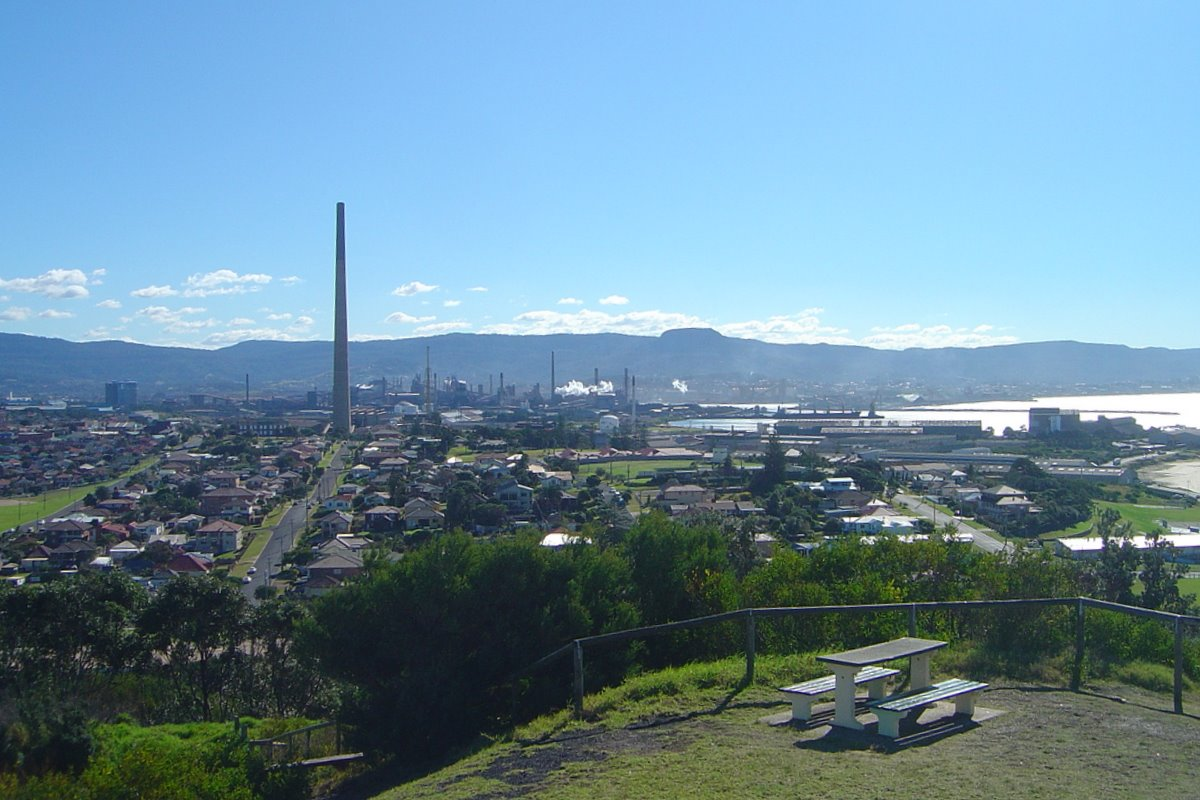 View of Port Kembla from Hill 60 Park. I would appreciate notification if you would like to use the photo, thanks.